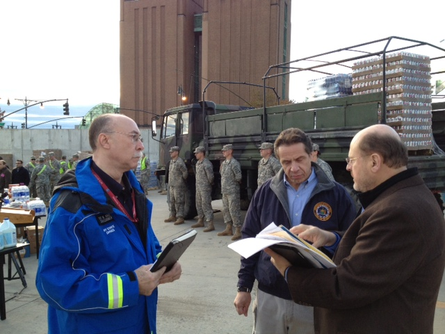 Jerome Hauer, NYS Commissioner of Homeland Security and Emergency Services, Gov. Andrew M. Cuomo and MTA Chairman Joseph J. Lhota discuss the response to Hurricane Sandy before a press conference at the Jacob Javits Center, Sunday, Nov. 4. Photo: Metropolitan Transportation Authority / Adam Lisberg